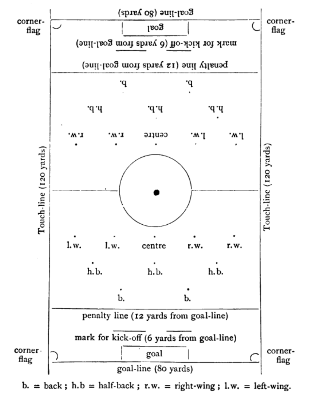 Diagram of the association football pitch (1898)